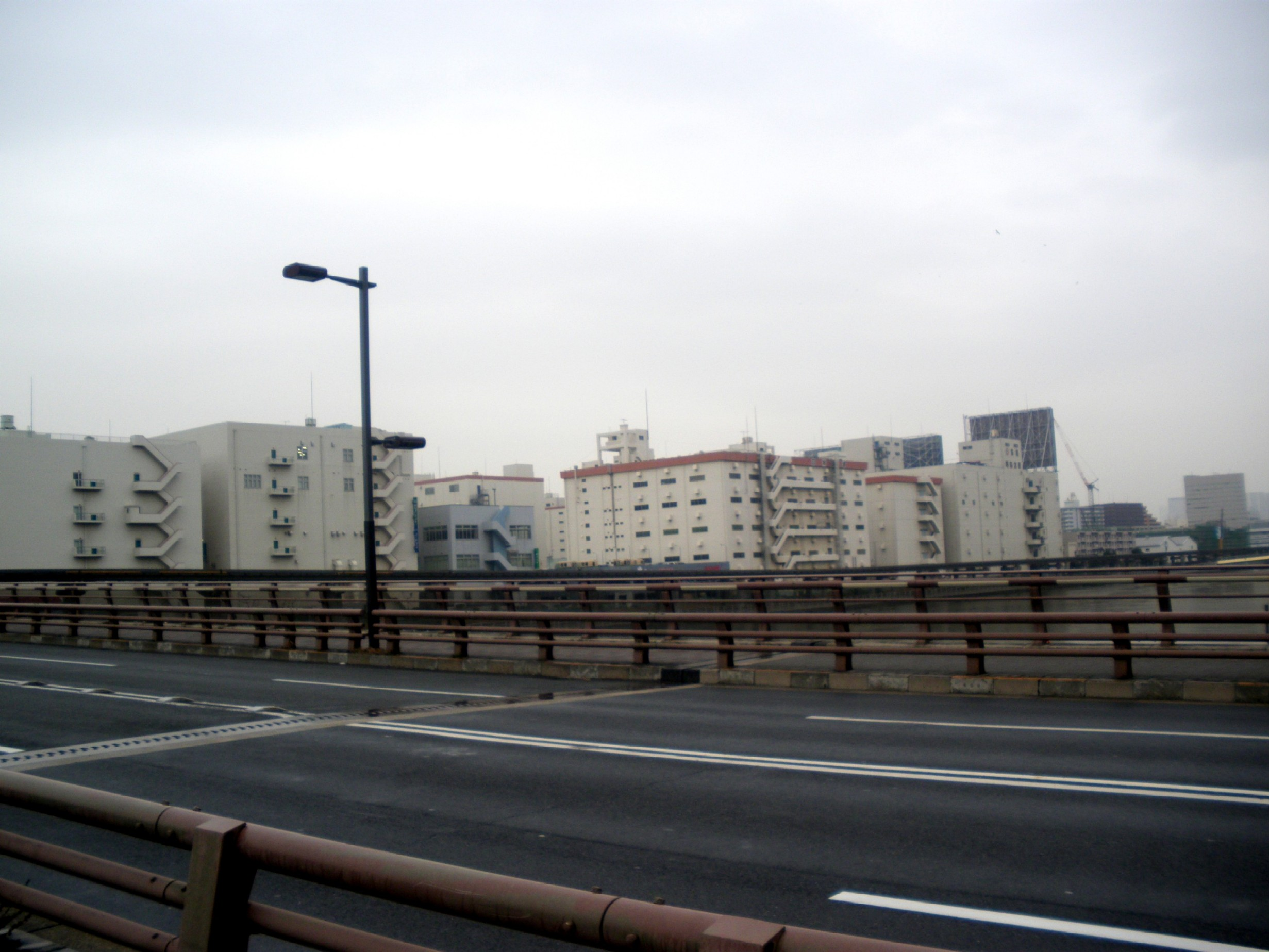 Katsushima seen from Katsushimabashi Bridge(Shinagawa,Tokyo)